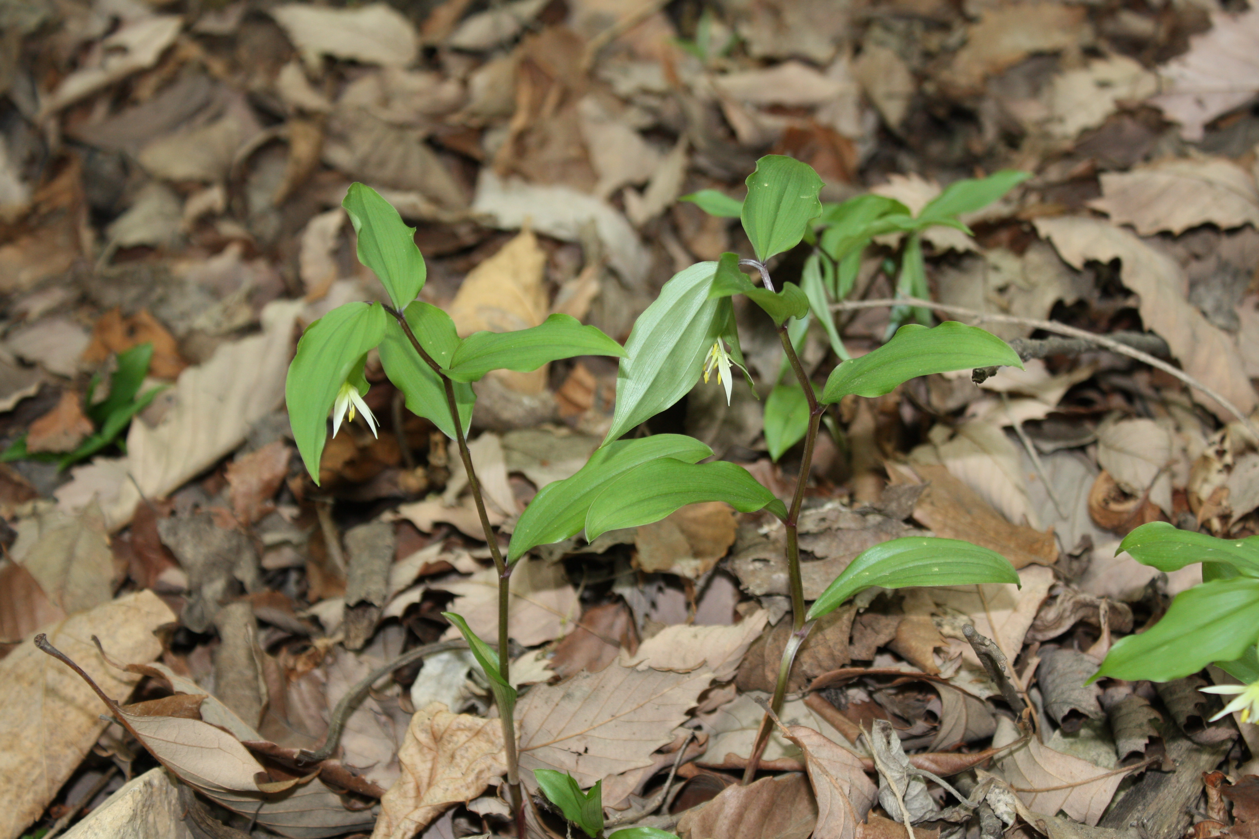 Disporum smilacinum